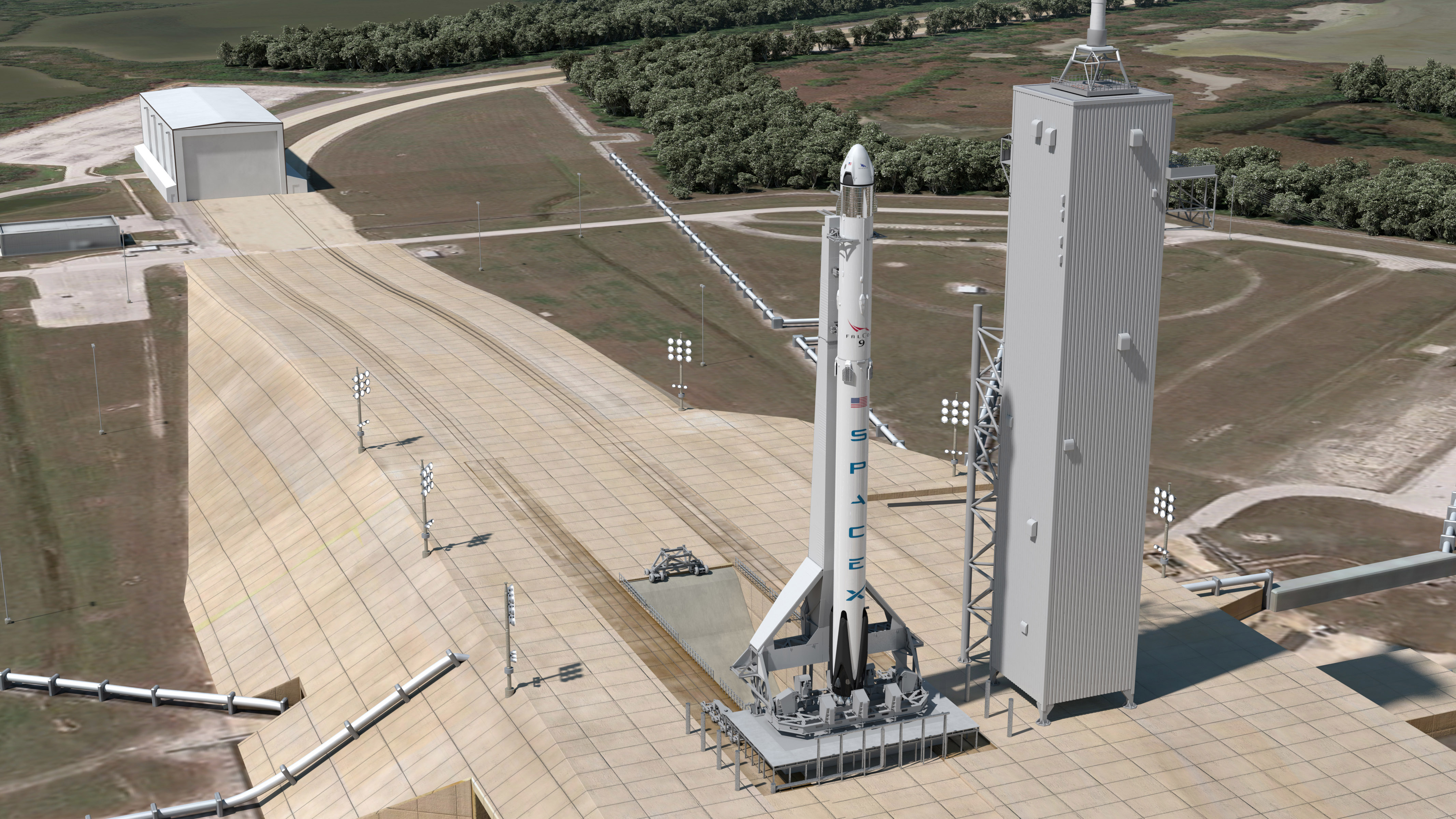 Pad 39A at Kennedy Space Center will be future home to NASA Commercial Crew Program launches and Falcon Heavy missions.